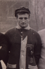 Hugh Gall (c. 1888 - May 19, 1938), Canadian athlete, coach and administrator